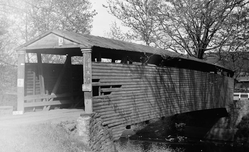 Bells Mill Bridge, Sewickley Creek, West Newton vicinity (Westmoreland County, Pennsylvania) cropped A truly horrible exposure. Fix it if you can!!! This file comes from the Historic American Buildings Survey (HABS), Historic American Engineering Record (HAER) or Historic American Landscapes Survey (HALS). These are programs of the National Park Service established for the purpose of documenting historic places. Records consist of measured drawings, archival photographs, and written reports. When reusing please credit: Library of Congress, Prints & Photographs Division, PA,65-NEWTW.V,1-1 This tag does not indicate the copyright status of the attached work. A normal copyright tag is still required. See Commons:Licensing. This work is in the public domain in the United States because it is a work prepared by an officer or employee of the United States Government as part of that person’s official duties under the terms of Title 17, Chapter 1, Section 105 of the US Code. Note: This only applies to original works of the Federal Government and not to the work of any individual U.S. state, territory, commonwealth, county, municipality, or any other subdivision. This template also does not apply to postage stamp designs published by the United States Postal Service since 1978. (See § 313.6(C)(1) of Compendium of U.S. Copyright Office Practices). It also does not apply to certain US coins; see The US Mint Terms of Use. This file has been identified as being free of known restrictions under copyright law, including all related and neighboring rights. Object location40° 13′ 09″ N, 79° 42′ 37″ W